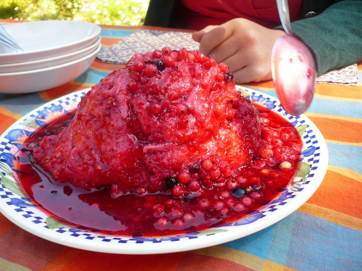 Summer pudding - macerated fruit and bread